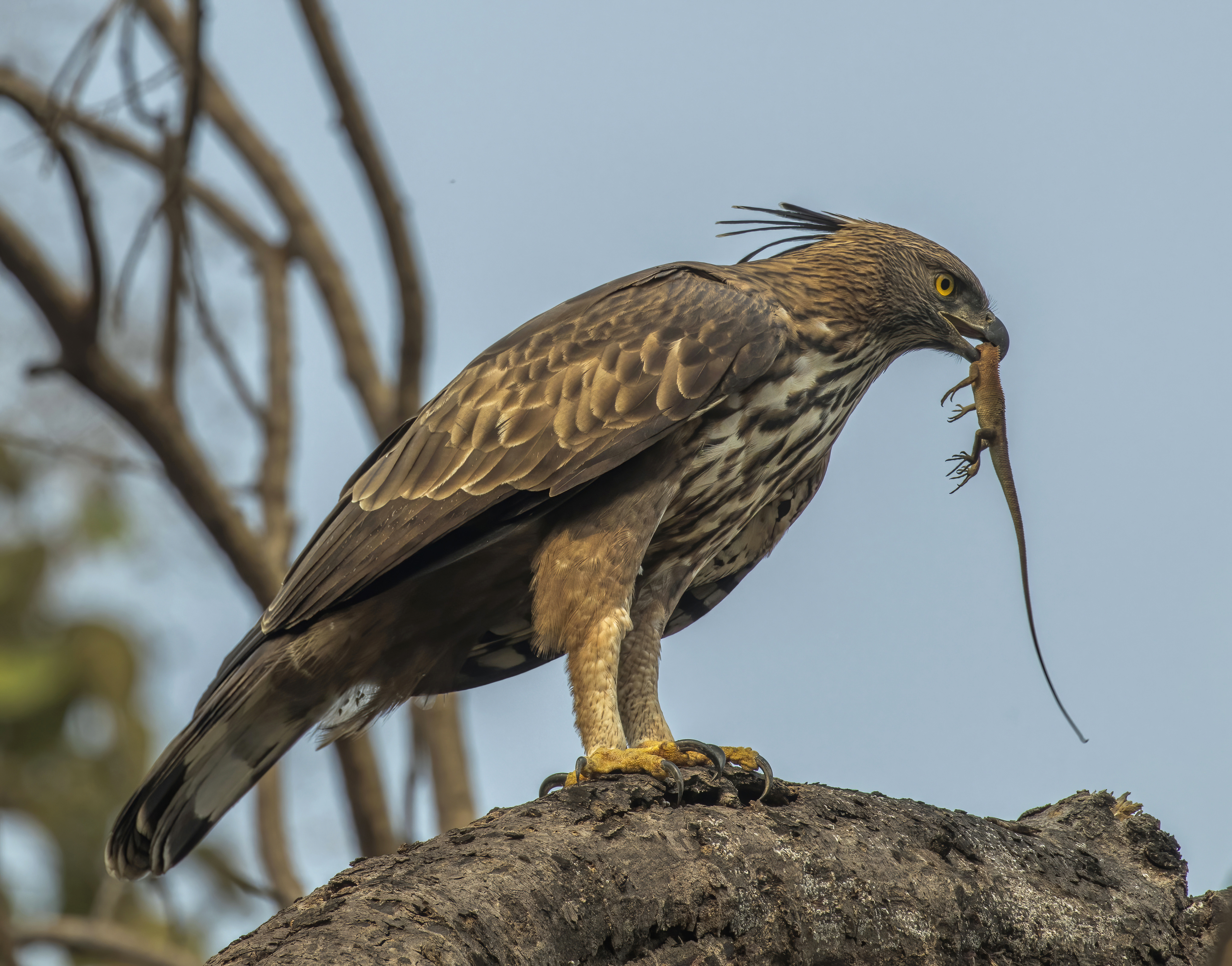 Crested hawk-eagle (Nisaetus cirrhatus cirrhatus) with Indian garden lizard, Satpura National Park, MP, India